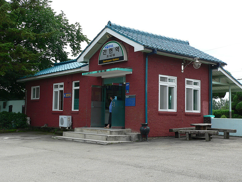 KORAIL Ganhyeon Station